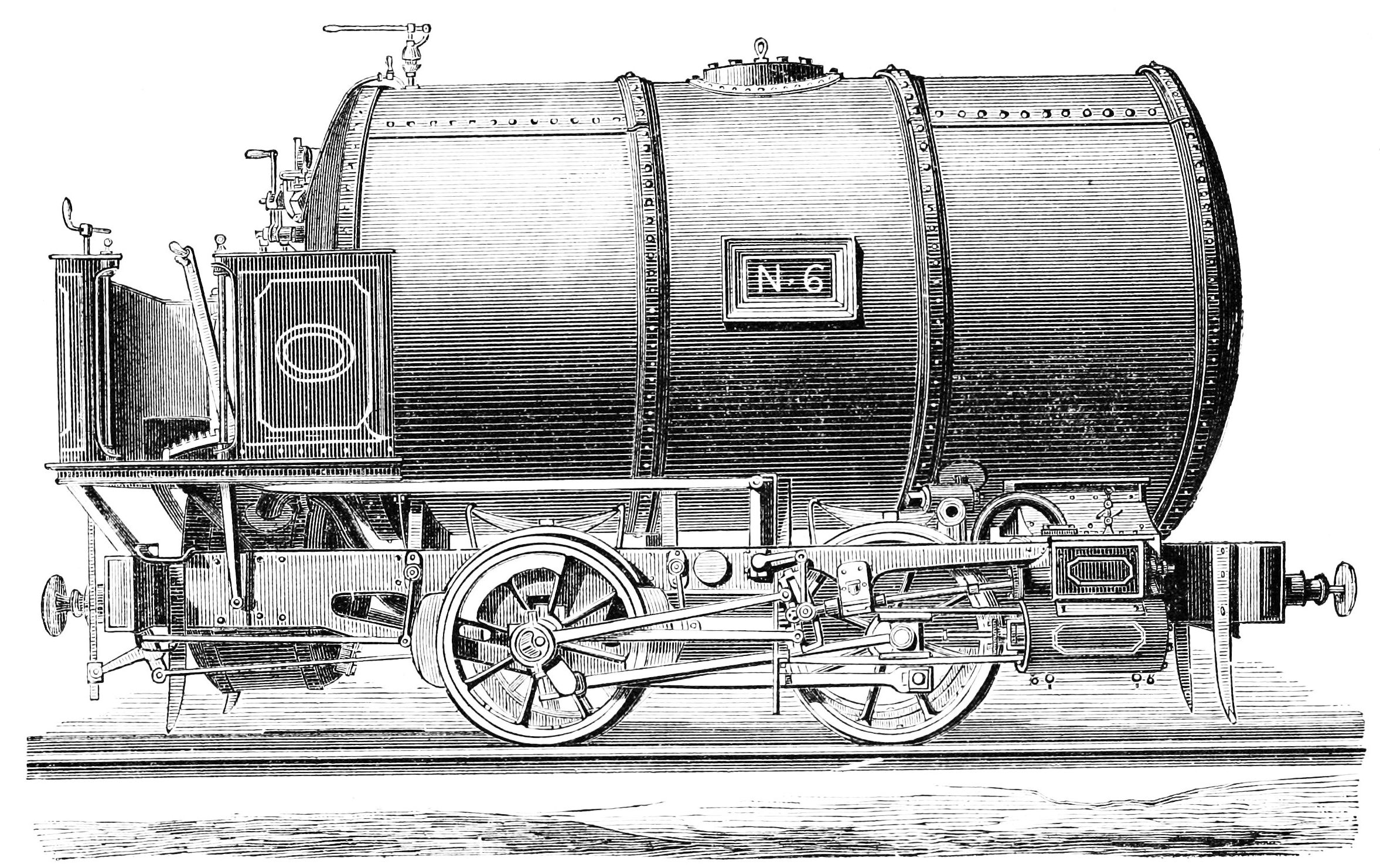 Compressed air locomotive